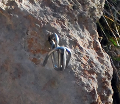 “Pigtail” (climbing bolt)